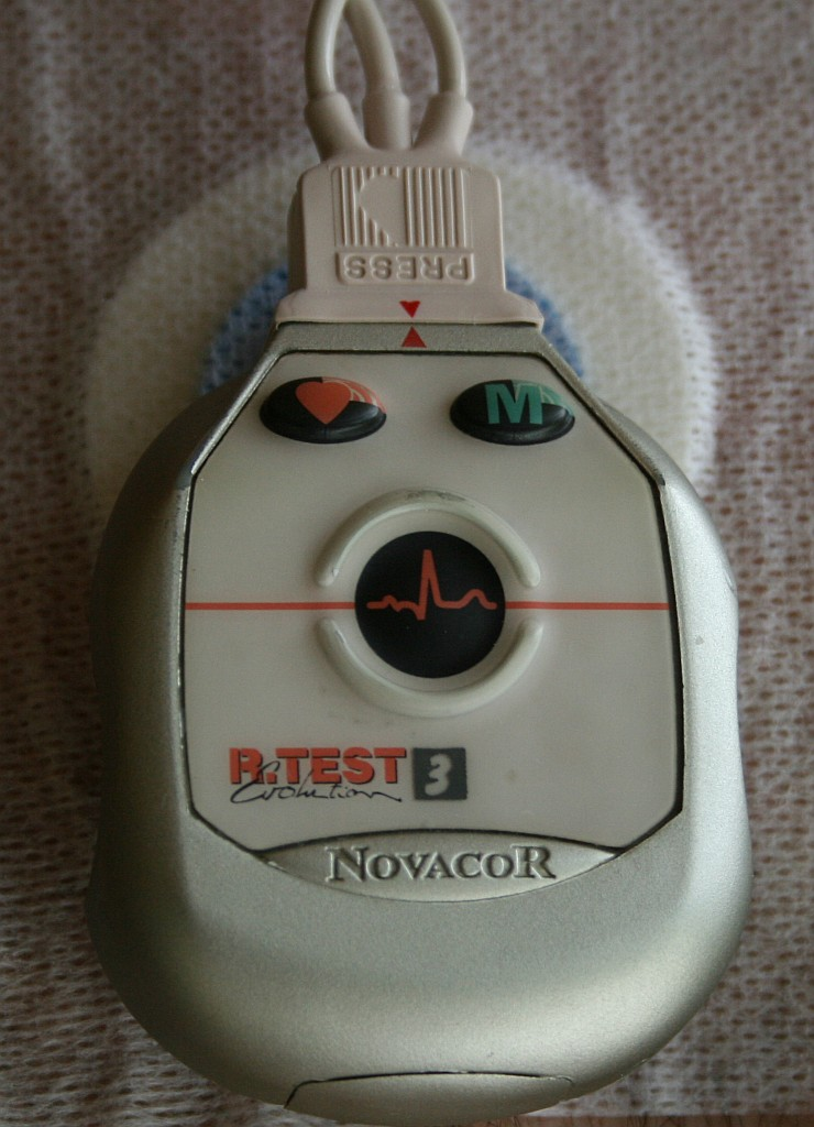 Holter Monitor Novacor R.Test3